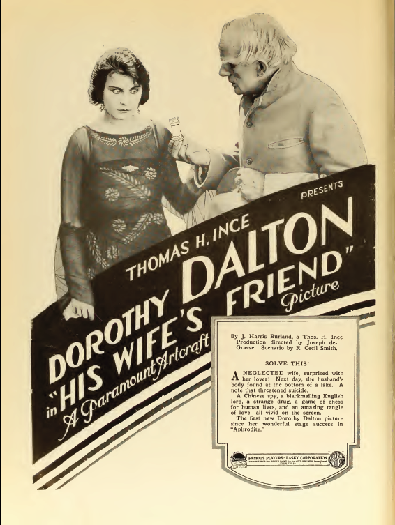 Ad for Dorothy Dalton in the film His Wife's Friend (1919), directed by Joseph De Grasse.